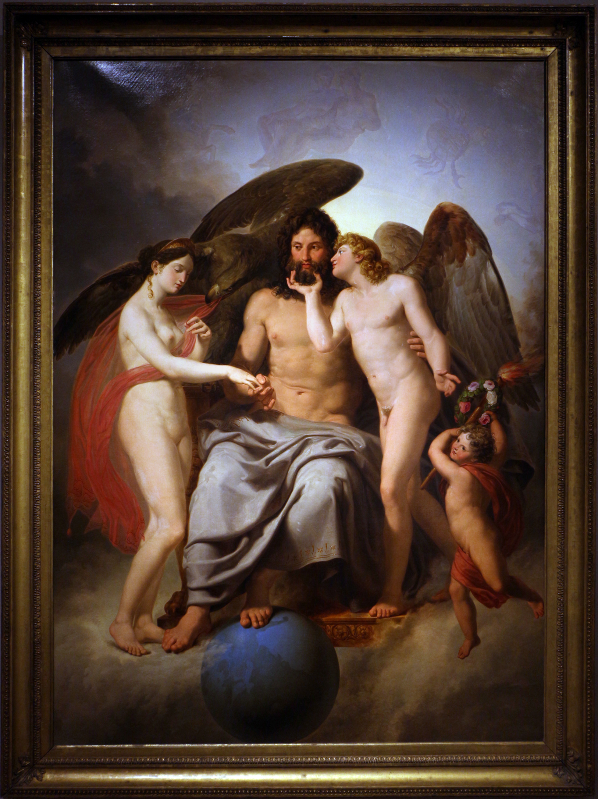 Paintings in the Detroit Institute of Arts